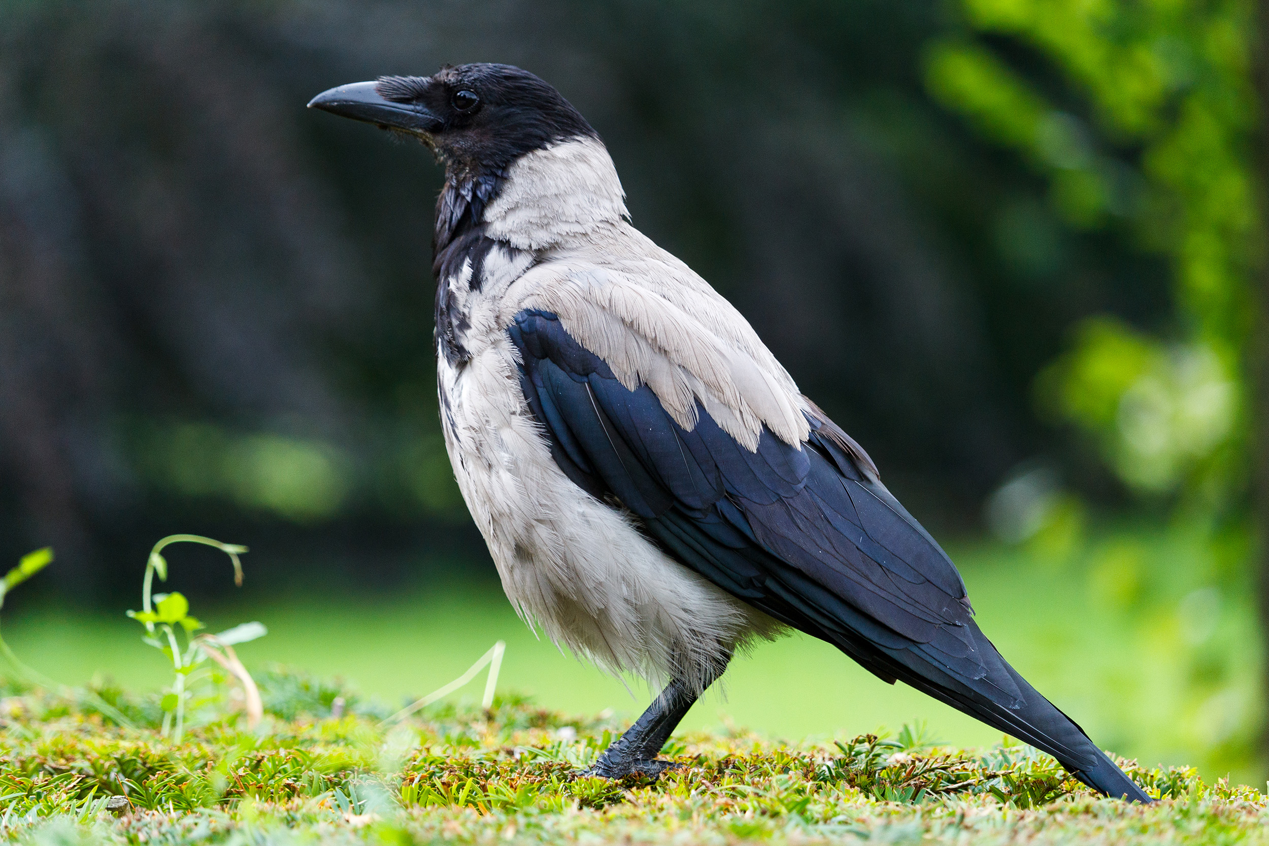 Corvus cornix at Sanssouci